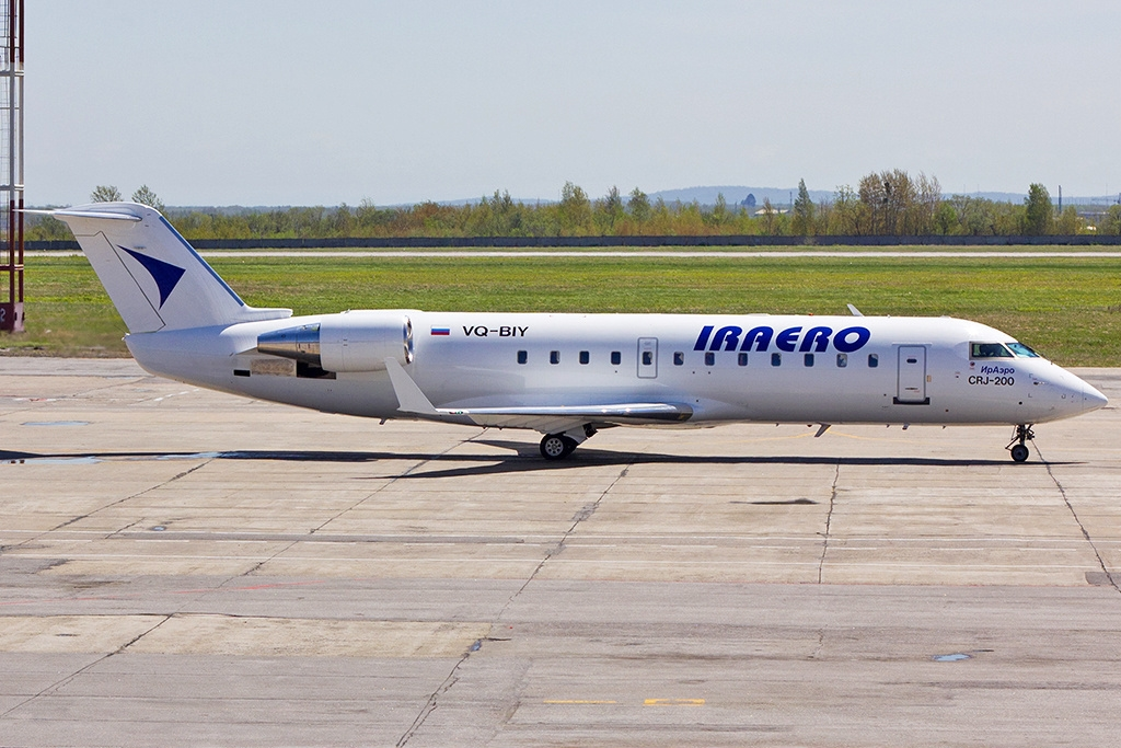 VQ-BIY (cn 7546) Another new CRJ-200 in Iraero's fleet